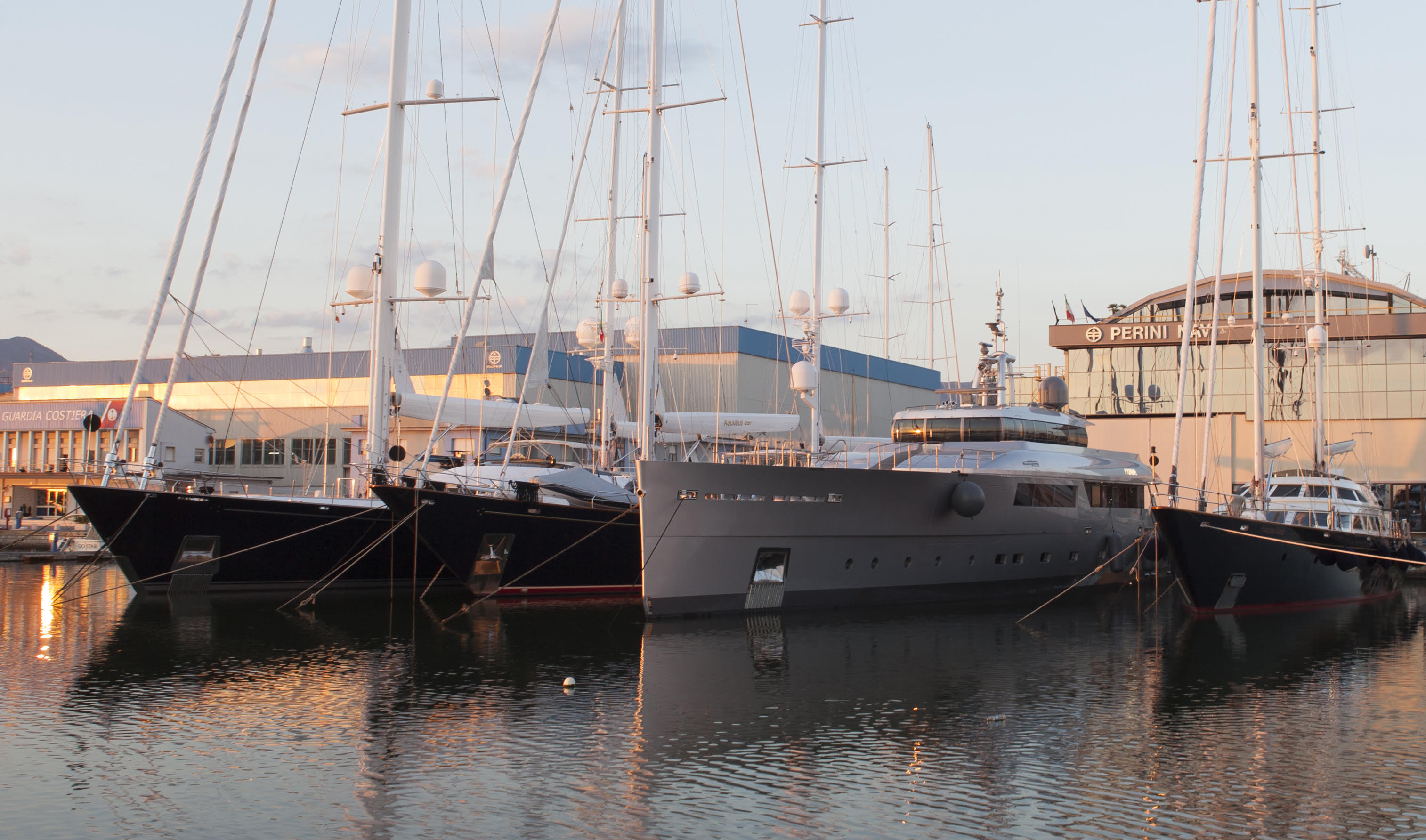 Perini Navi Headquarters in Viareggio